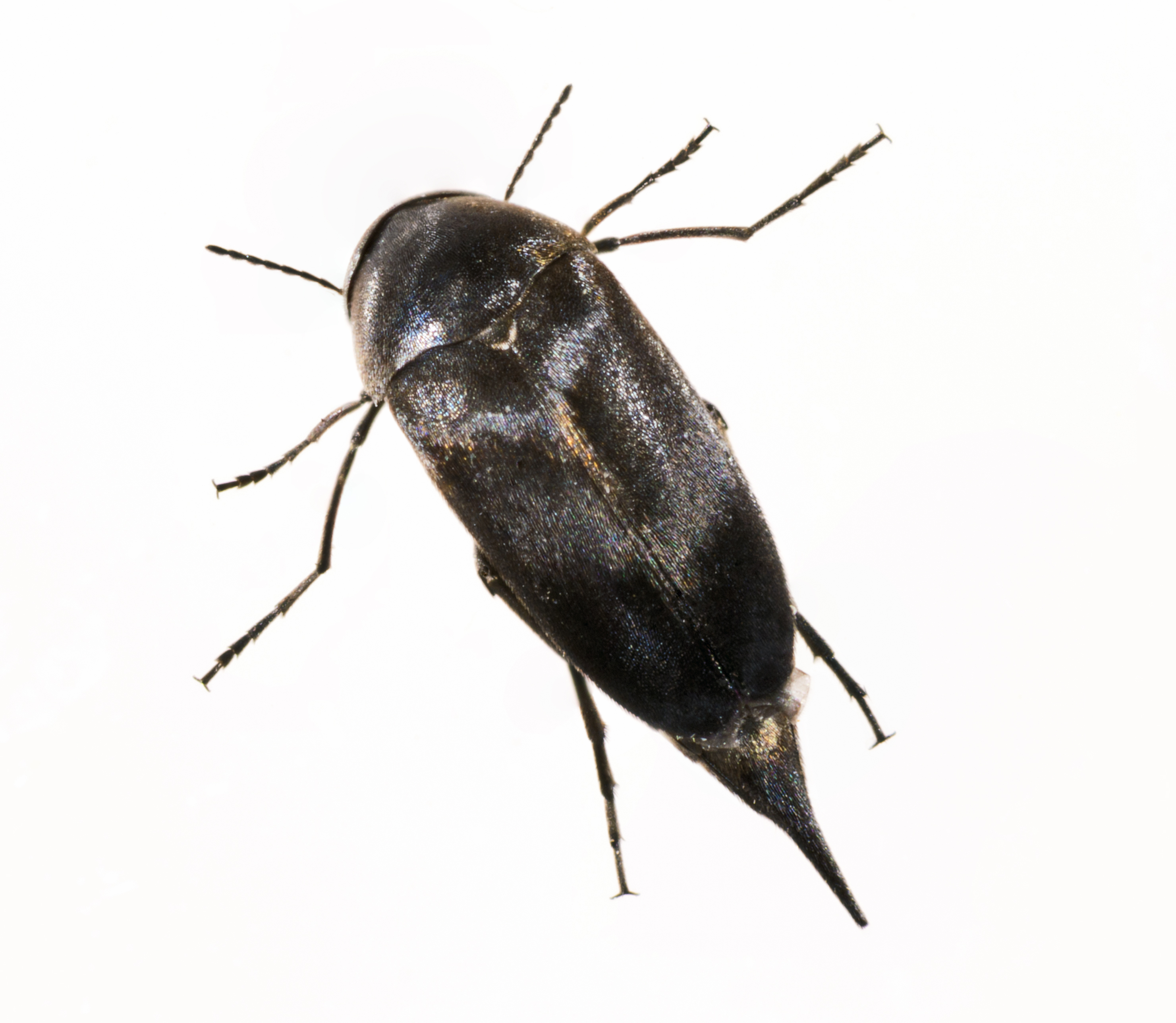 Mordella aculeata. Living animal image made studio.